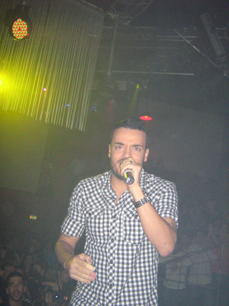 Giovanni Zarrella live